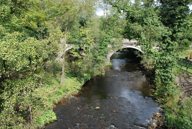 The River Derwent at Calver. Calver has been an important place to cross the river Derwent since Tudor times. The first bridge was washed away in 1799 and was replaced by the one in the photograph. A new bridge now carries the heavy traffic which passes through this village. For more information see the Wikipedia articles River Derwent (Derbyshire) and Calver.